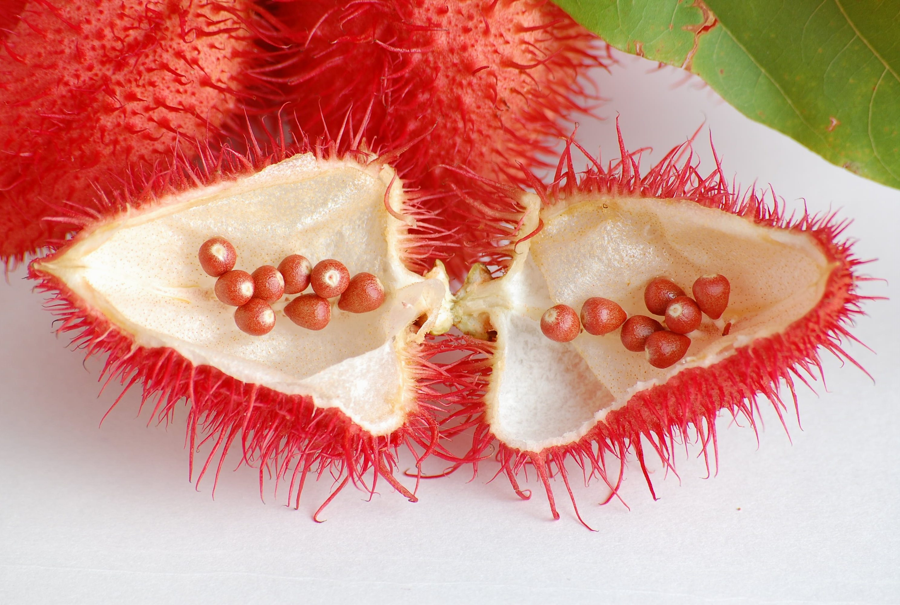 Bixa orellana (lipstick Tree)